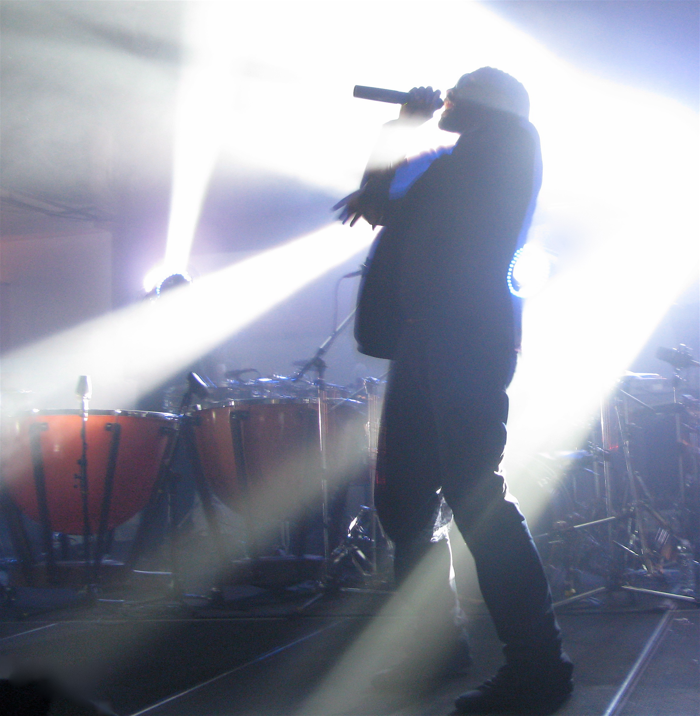 Kanye West performing "Flashing Lights" at the 2008 Democratic National Convention.